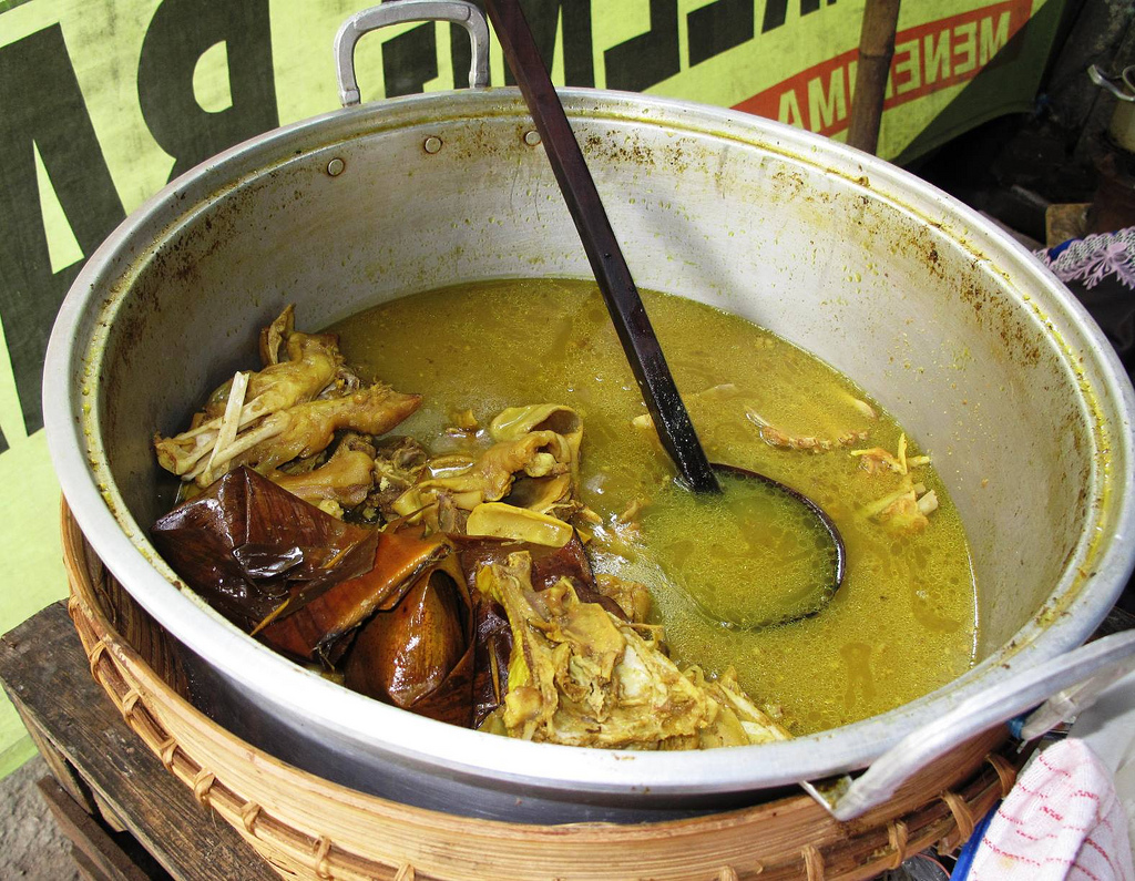 Tekleng, mutton soup of Solo, Indonesia